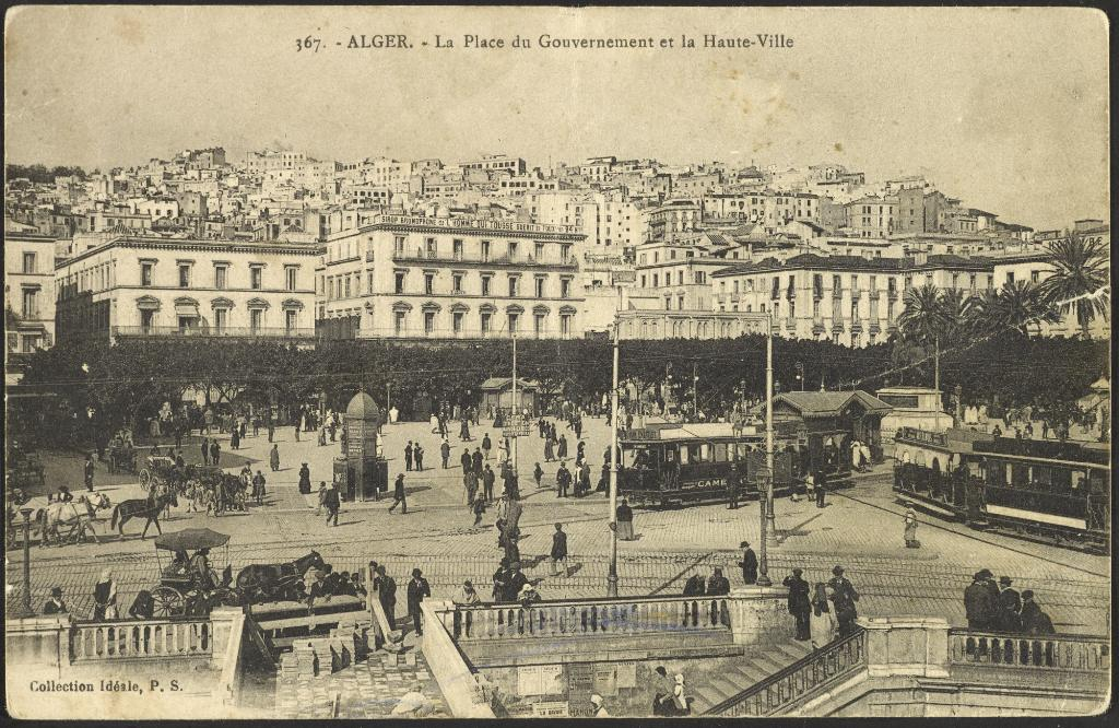 Postcard of Algiers, early 20th century Creator: Idéale Date: early 20th century Accession number: ZPC2 A1A4 Featured in the exhibition, Walls of Algiers: Narratives of the City, May 19 - October 18, 2009 at the Getty Research Institute. Part of the Cities and Sites Postcard collection in the Getty Research Institute Library's special collections. View the library record for this collection.